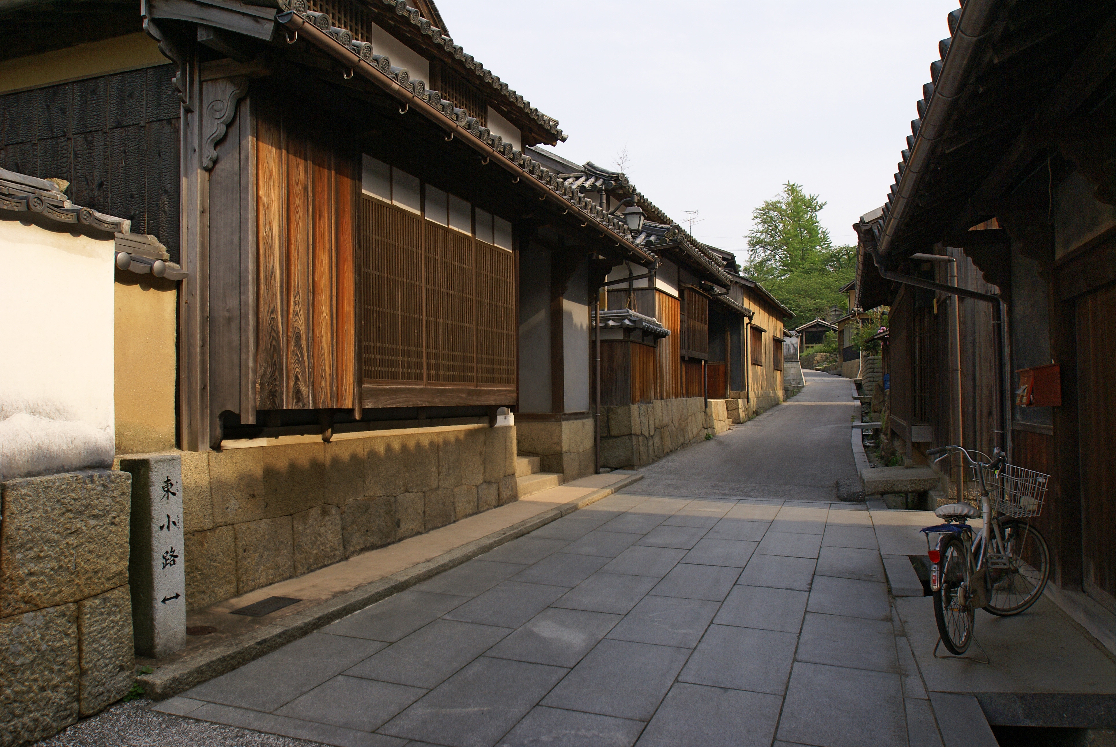 The Bunsho-kan in Kasajima, Hon-jima of Shiwaku Islands (Marugame, Kagawa prefecture, Japan)